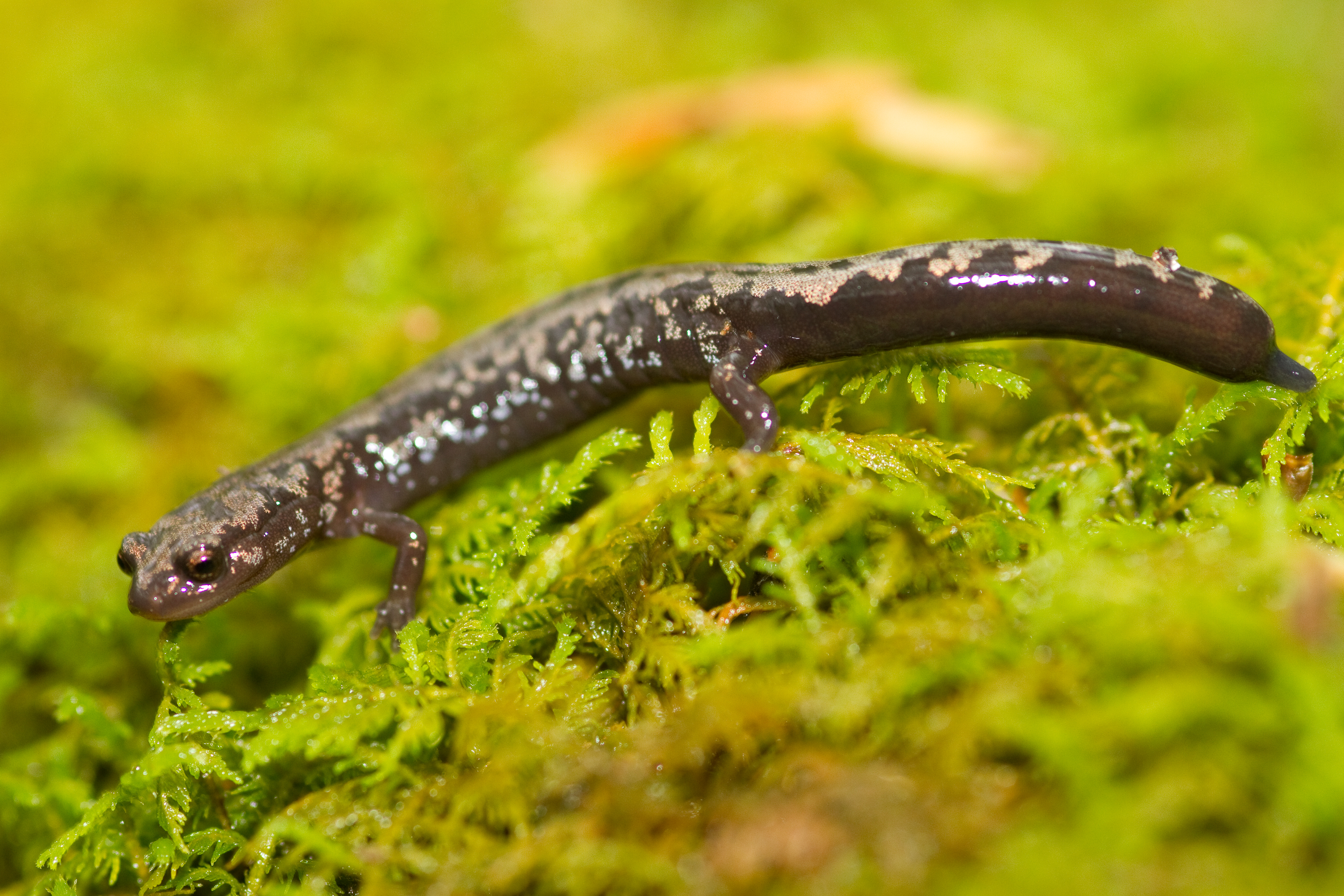 Weller's salamander